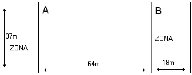 Ultimate Frisbee outdoor standard size outdoor field